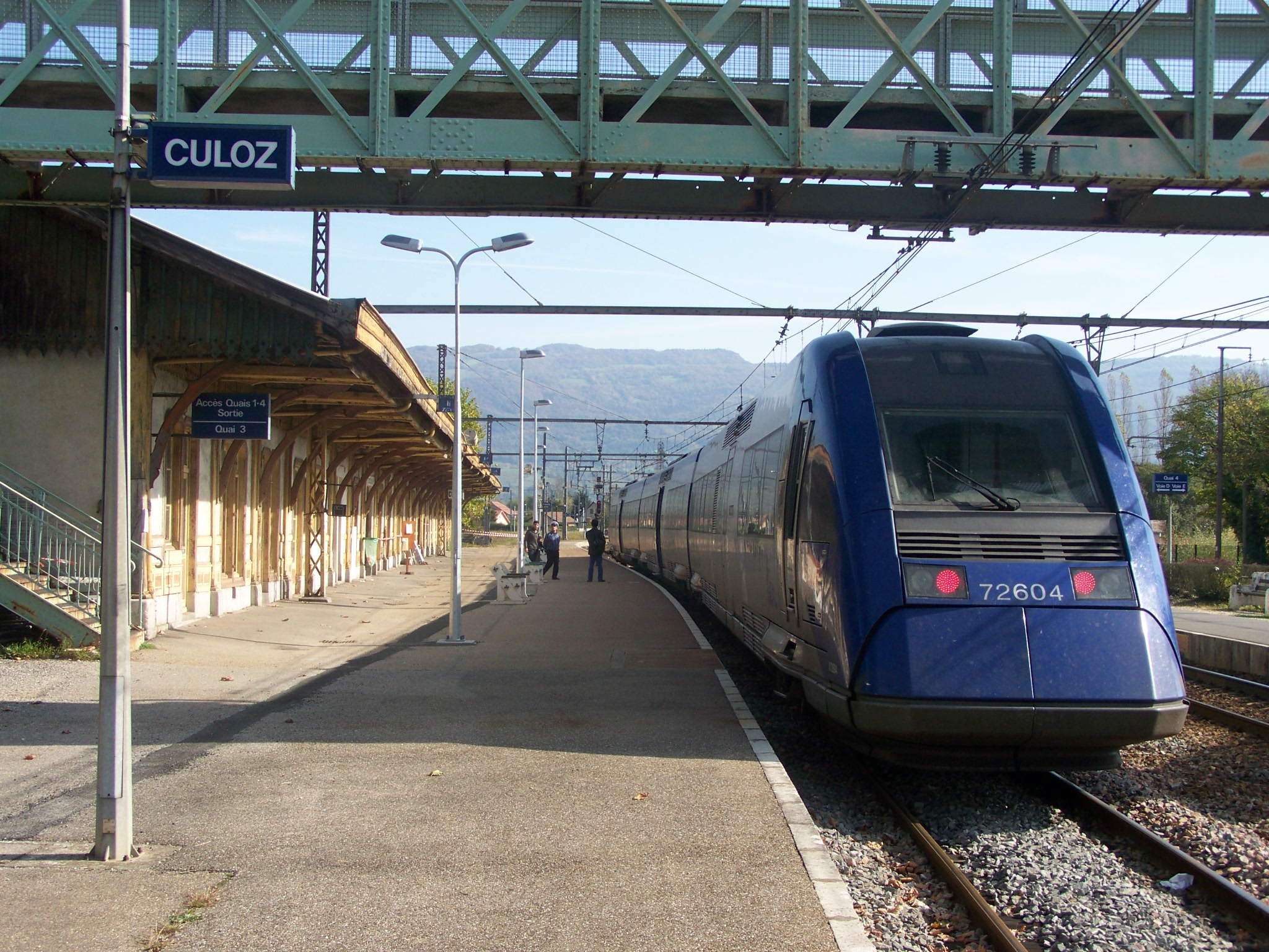 French SNCF Class X 72500 leading the regional train n° 96609 coming from Valence and going to Geneva is stopping at Culoz railway station, in the department of Ain.